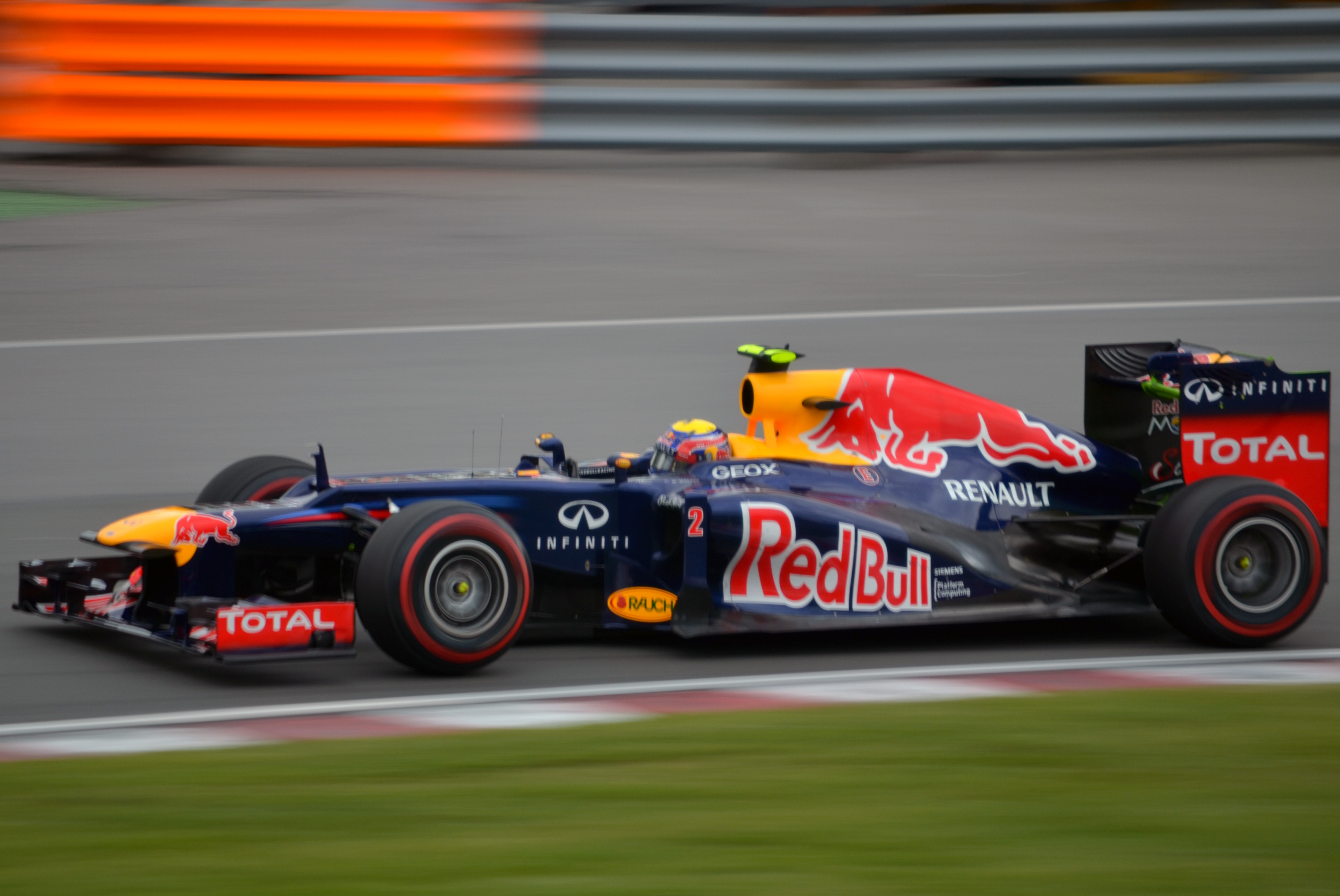 Mark Webber in the Red Bull - Renault RB8 at turn 9 of Circuit Gilles Villeneuve during second practice for the 2012 Canadian Grand Prix.